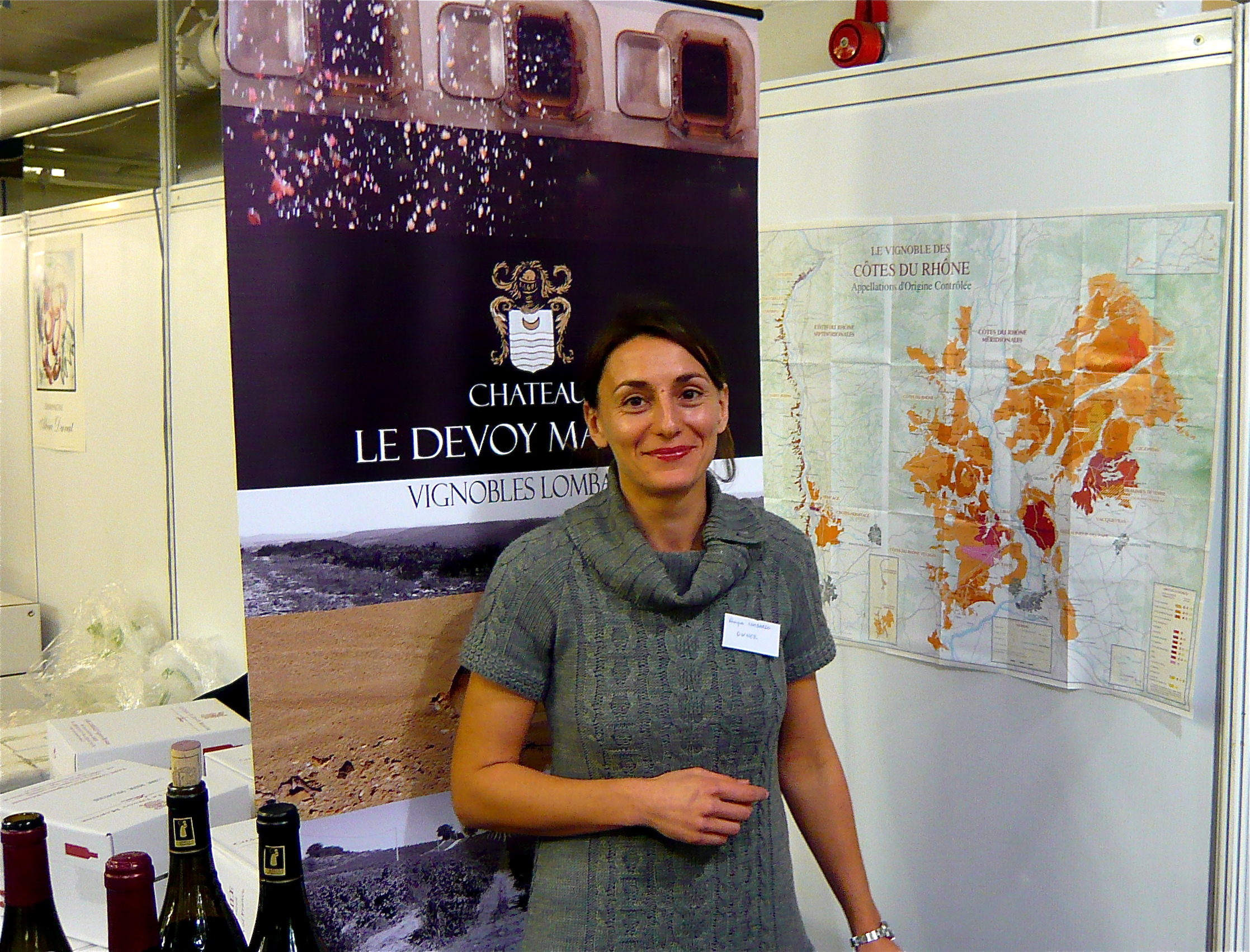 French Wine Tasting at the Barbican